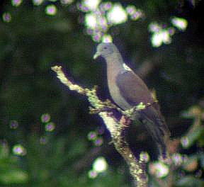 A distant male Delegorgue's Pigeon or Eastern Bronze-naped Pigeon (Columba delegorguei) digiscoped using my old compact and a borrowed scope. Location: Dlinza Forest, Eshowe, KwaZulu-Natal, South Africa